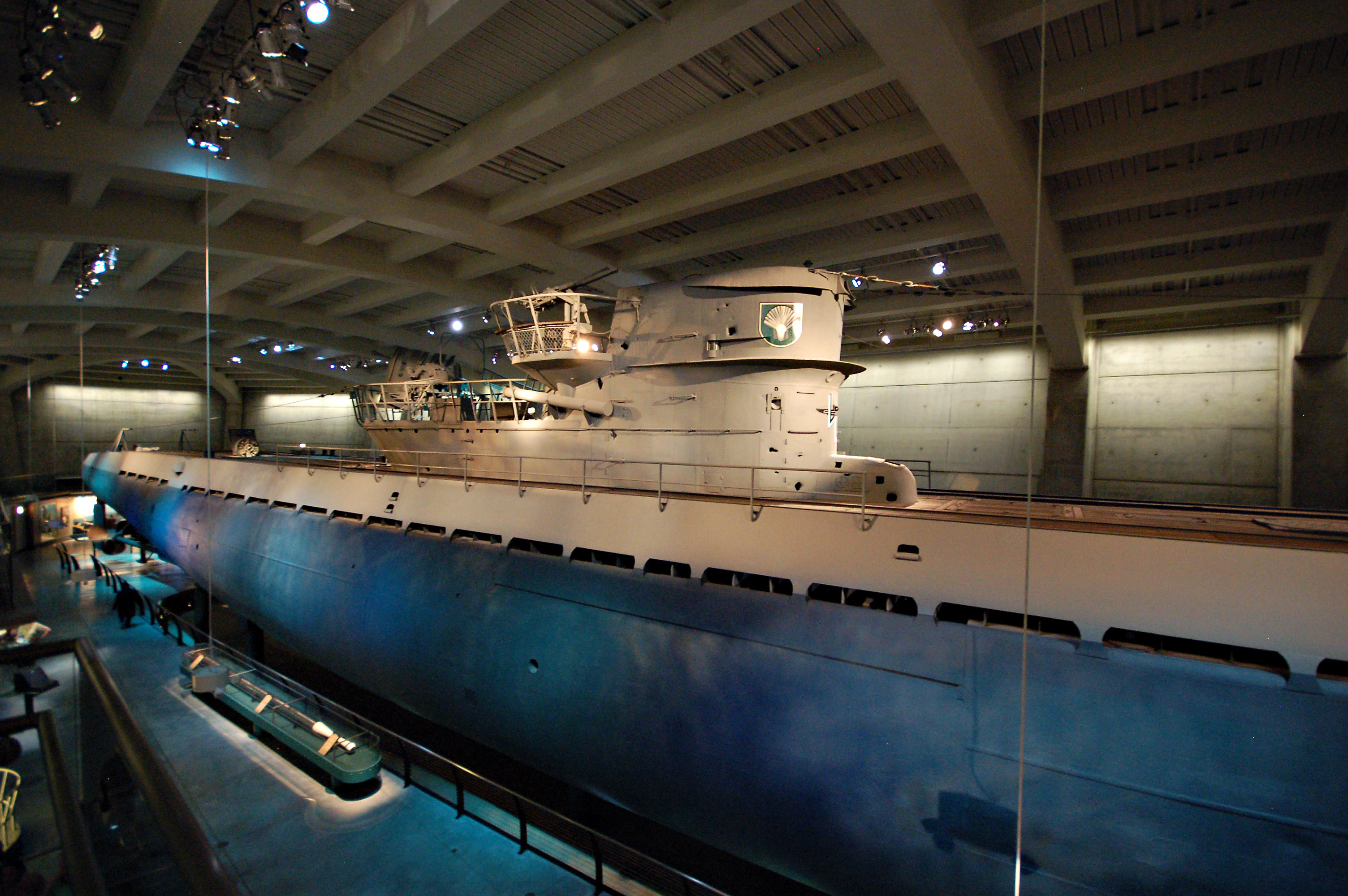 Photograph from right front of U-505, at the Museum of Science and Industry, Chicago.